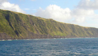 The simple dock at the Port of Varadouro, civil parish of Capelo, municipality of Horta (Azores), Portugal